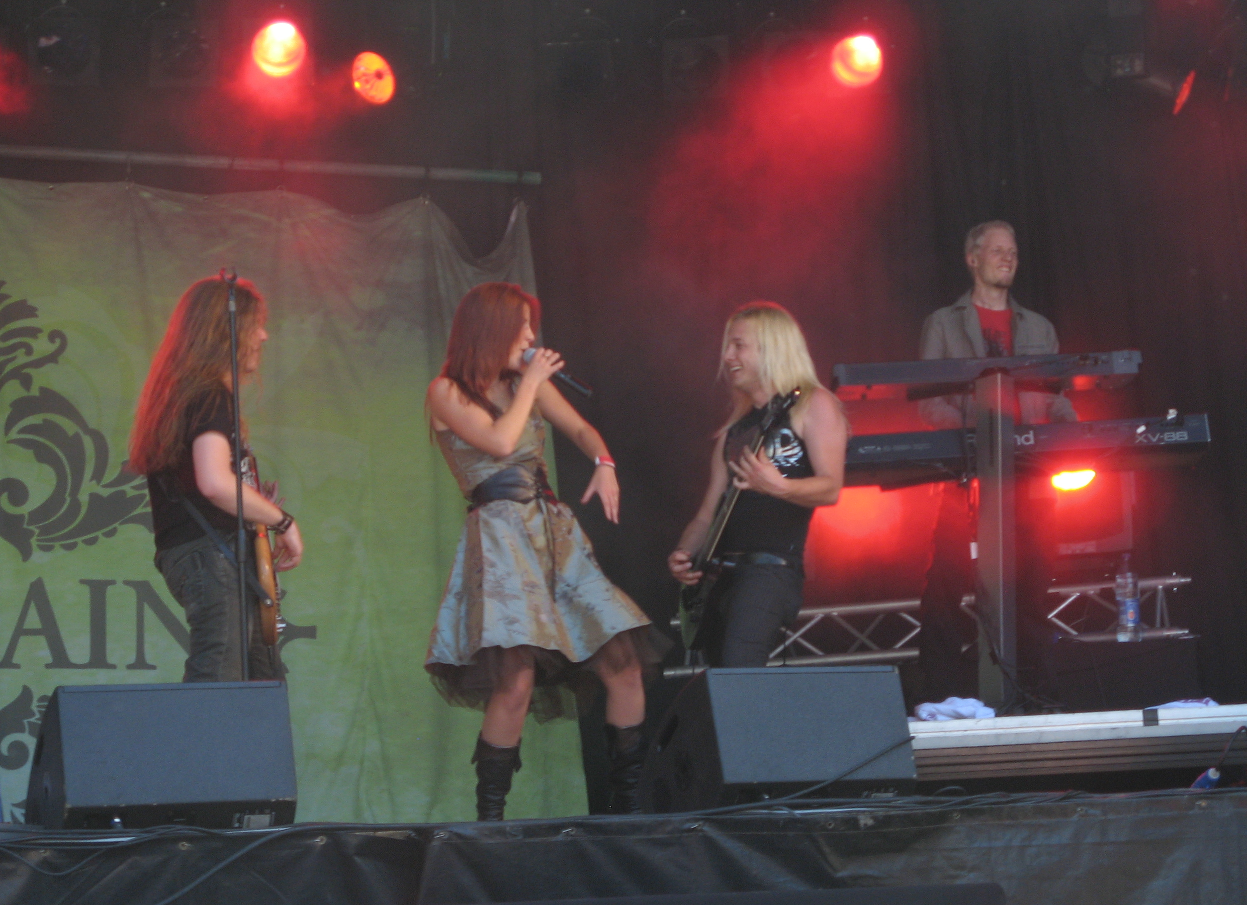 Delain on Westerpop 2007.